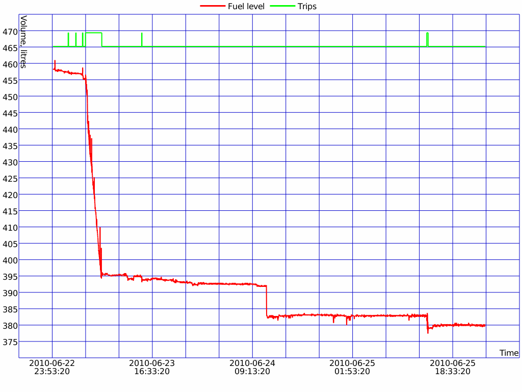 fuel theft seen in wialon gps tracking software